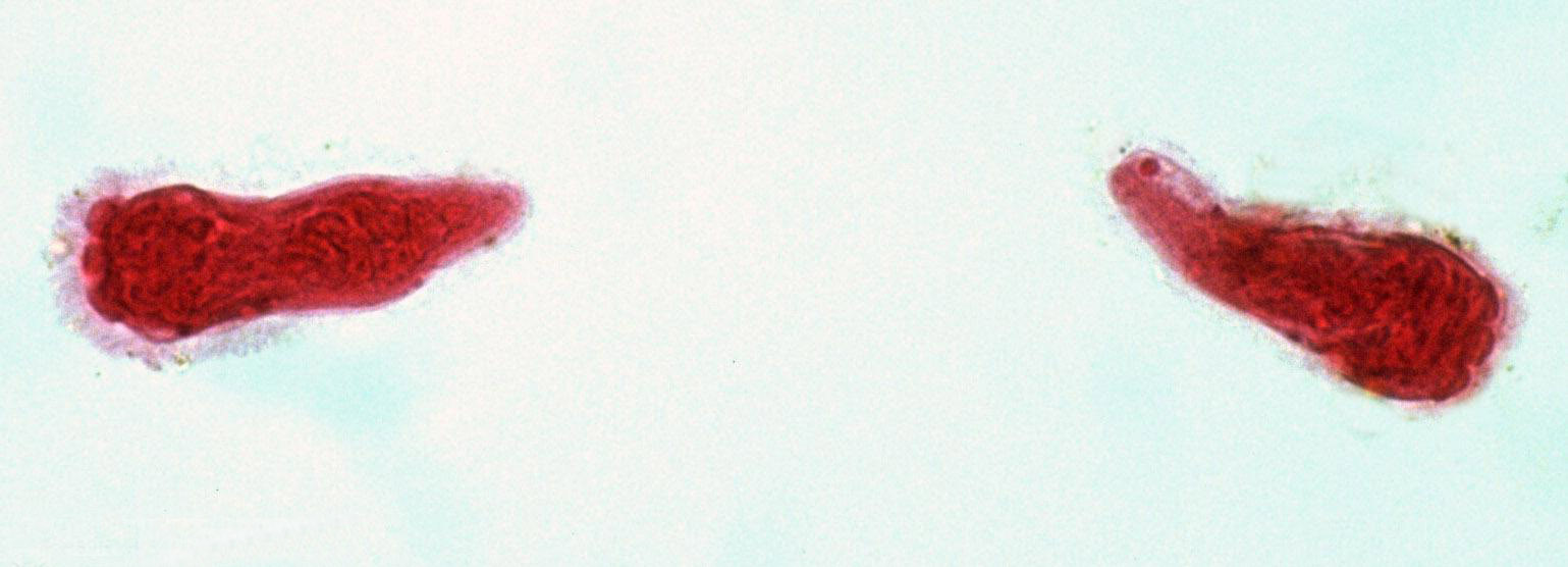 Miracidium stage of Fasciola liver fluke. This stage hatches from egg and then infects a snail intermediate host.